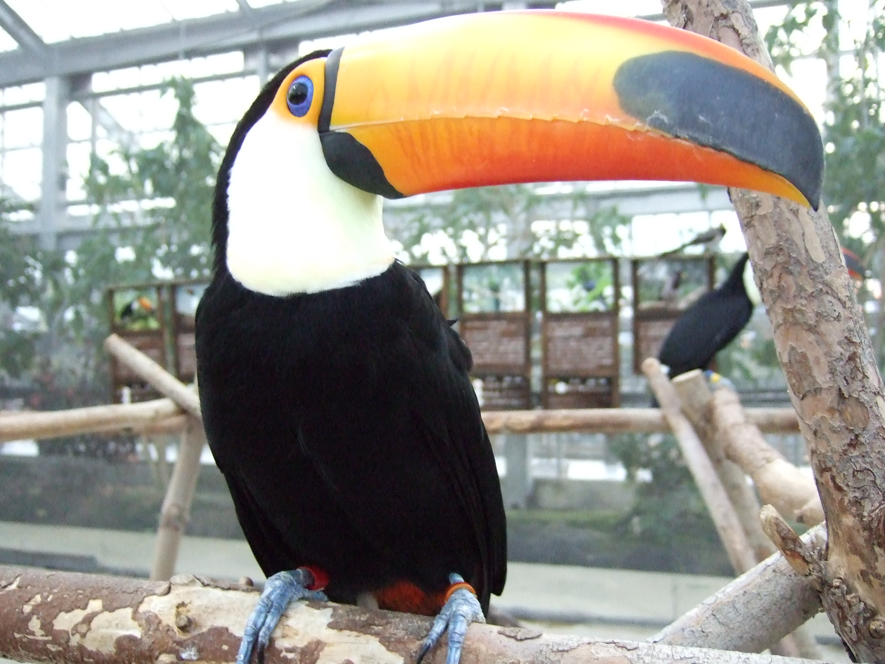 A Toco Toucan at Kobe Kachoen, Japan.